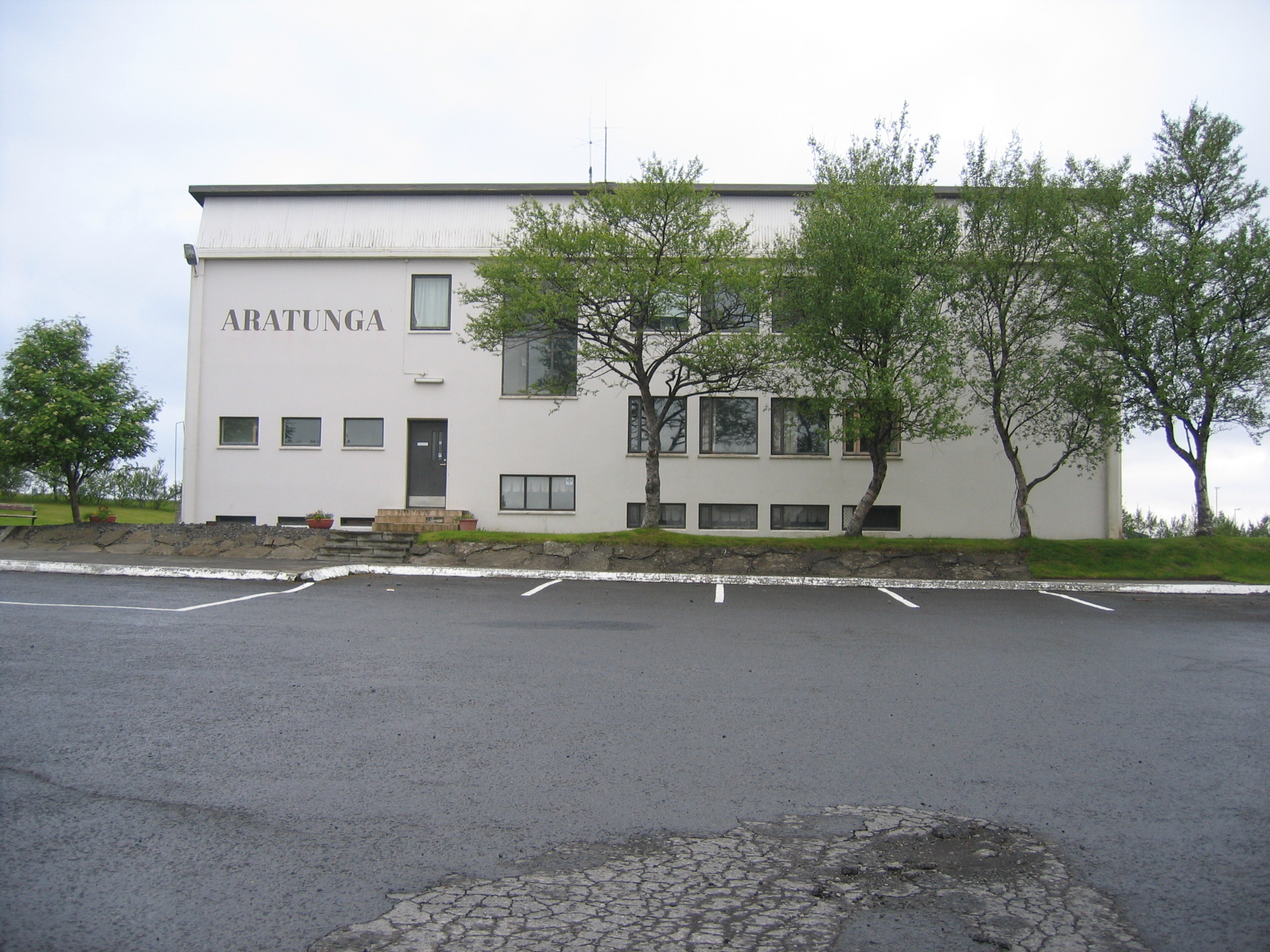 Aratunga, hús í Bláskógabyggð á Íslandi.